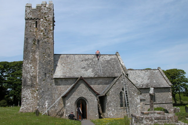 St Michael's church, Bosherston, near to Bosherston, Pembrokeshire/Sir Benfro, Great Britain. At the time of the picture some work was being carried out on the roof of the church.